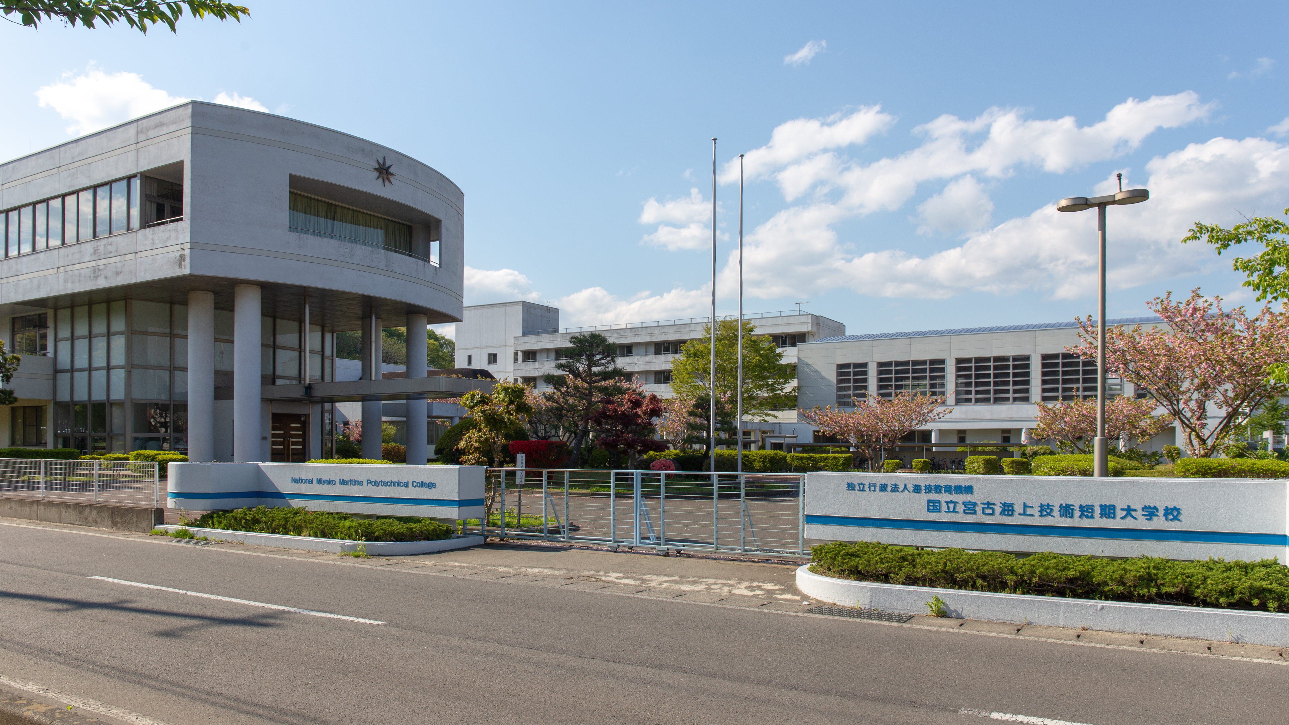 National Miyako Maritime Polytechnical College in Miyako City, Iwate Prefecture, Japan